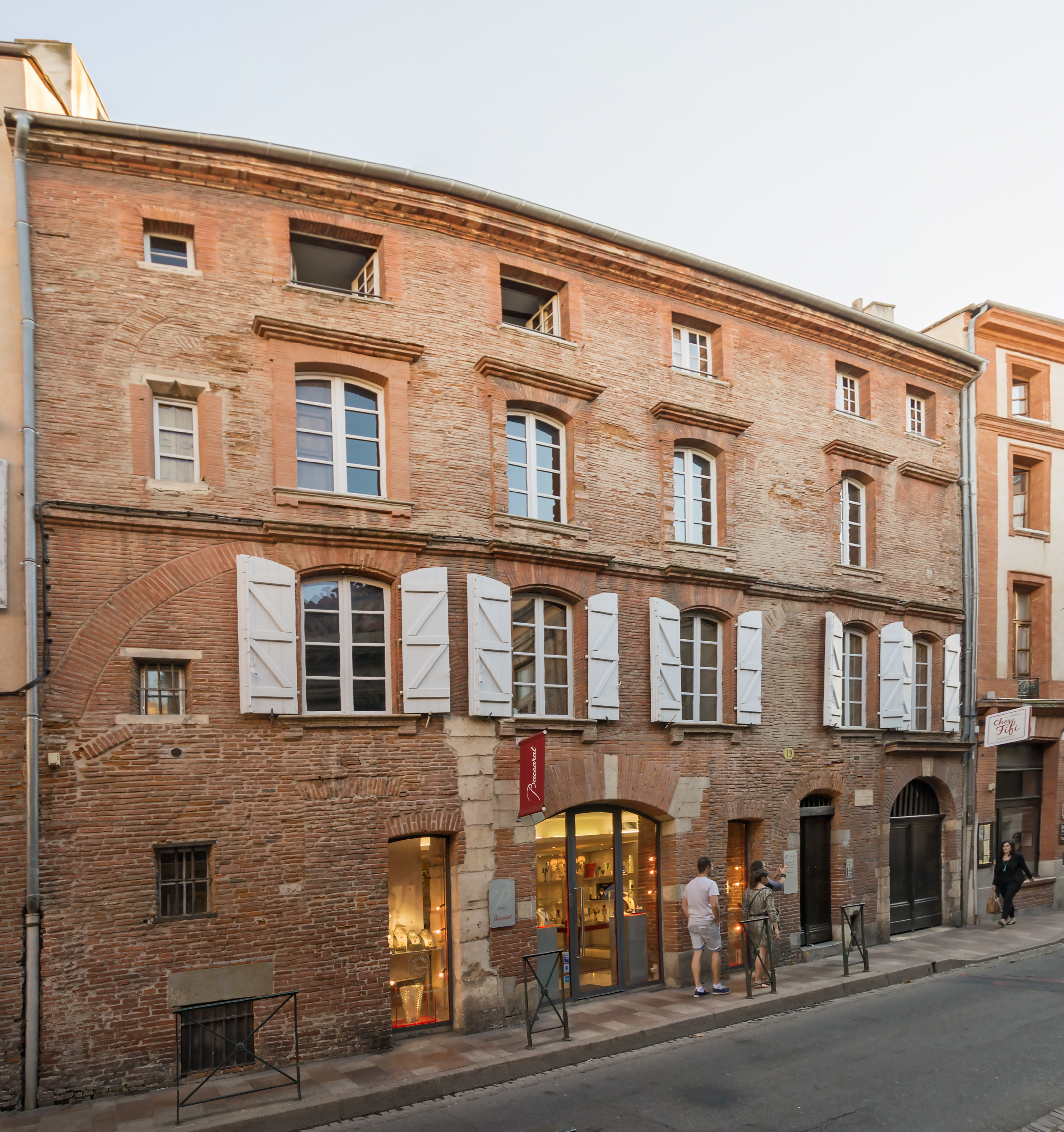 Hôtel de Bonnefoy in Toulouse, facade. Sixteenth century.